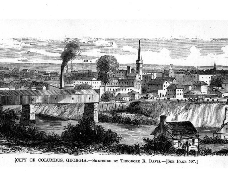 A picture of Downtown Columbus, Georgia, United States, in 1880.